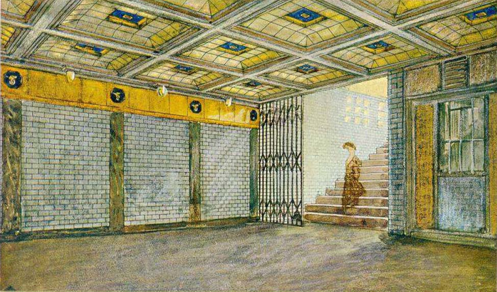 the former vestibule at the underground station Reichskanzlerplatz (today Theordor-Heuss-Platz) of the Berlin U-Bahn, Germany